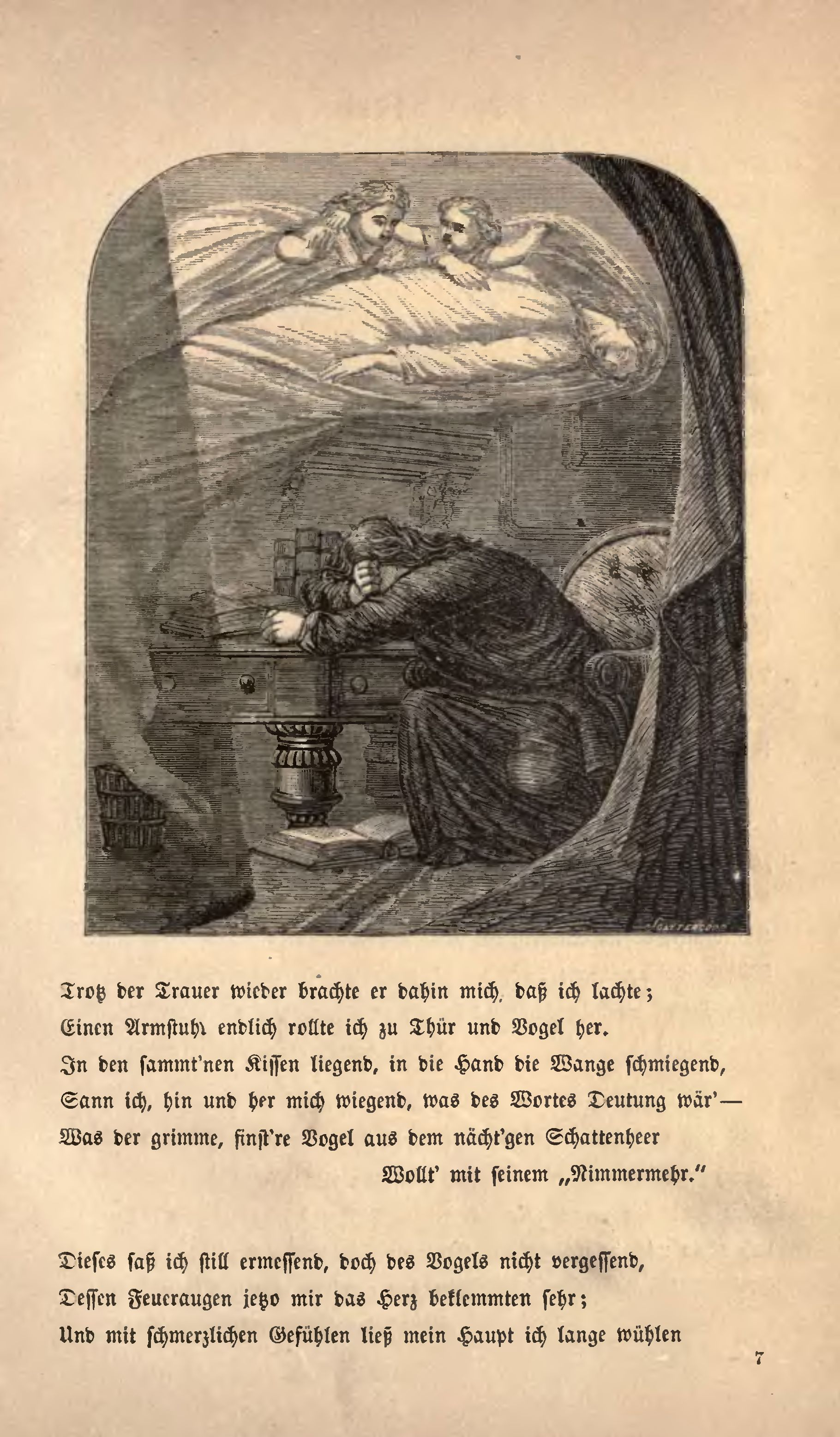 This is a scan of the historical document